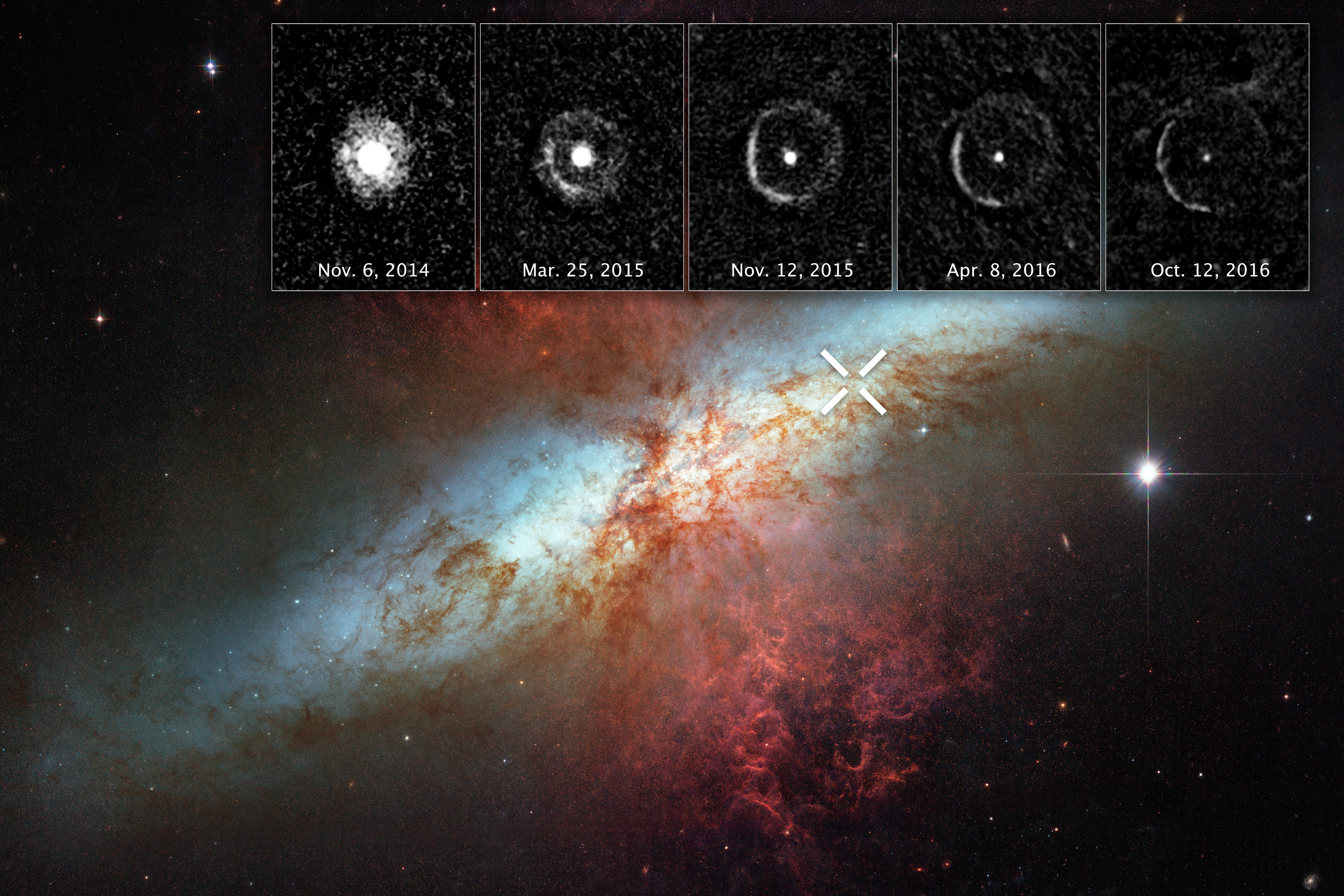 Light from a supernova explosion in the nearby starburst galaxy Messier 82 is reverberating off a huge dust cloud in interstellar space. The supernova, called SN 2014J, occurred at the upper right of Messier 82, and is marked by an “X.” The supernova was discovered on 21 January 2014. The inset images at the top reveal an expanding shell of light from the stellar explosion sweeping through interstellar space, called a “light echo.” The images were taken 10 months to nearly two years after the violent event (6 November 2014 to 12 October 2016). The light is bouncing off a giant dust cloud that extends 300 to 1600 light-years from the supernova and is being reflected toward Earth. SN 2014J is classified as a Type Ia supernova and is the closest such blast in at least four decades. A Type Ia supernova occurs in a binary star system consisting of a burned-out white dwarf and a companion star. The white dwarf explodes after the companion dumps too much material onto it. The image of Messier 82 reveals a bright blue disc, webs of shredded clouds, and fiery-looking plumes of glowing hydrogen blasting out of its central regions. Close encounters with its larger neighbor, the spiral galaxy Messier 81, is compressing gas in Messier 82 and stoking the birth of multiple star clusters. Some of these stars live for only a short time and die in cataclysmic supernova blasts, as shown by SN 2014J. Located about 11 million light-years away, Messier 82 appears high in the constellation Ursa Major, the Great Bear. It is also called the “Cigar Galaxy” because of the elliptical shape produced by the oblique tilt of its starry disk relative to our line of sight. The Messier 82 image was taken in 2006 using the Advanced Camera for Surveys. The inset images of the light echo also were taken by the Advanced Camera for Surveys.